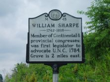 ID: M-45 Marker Title: WILLIAM SHARPE 1742-1818 Location: NC 115 at SR 1903 (Snow Creek Road) northwest of Statesville County: Iredell